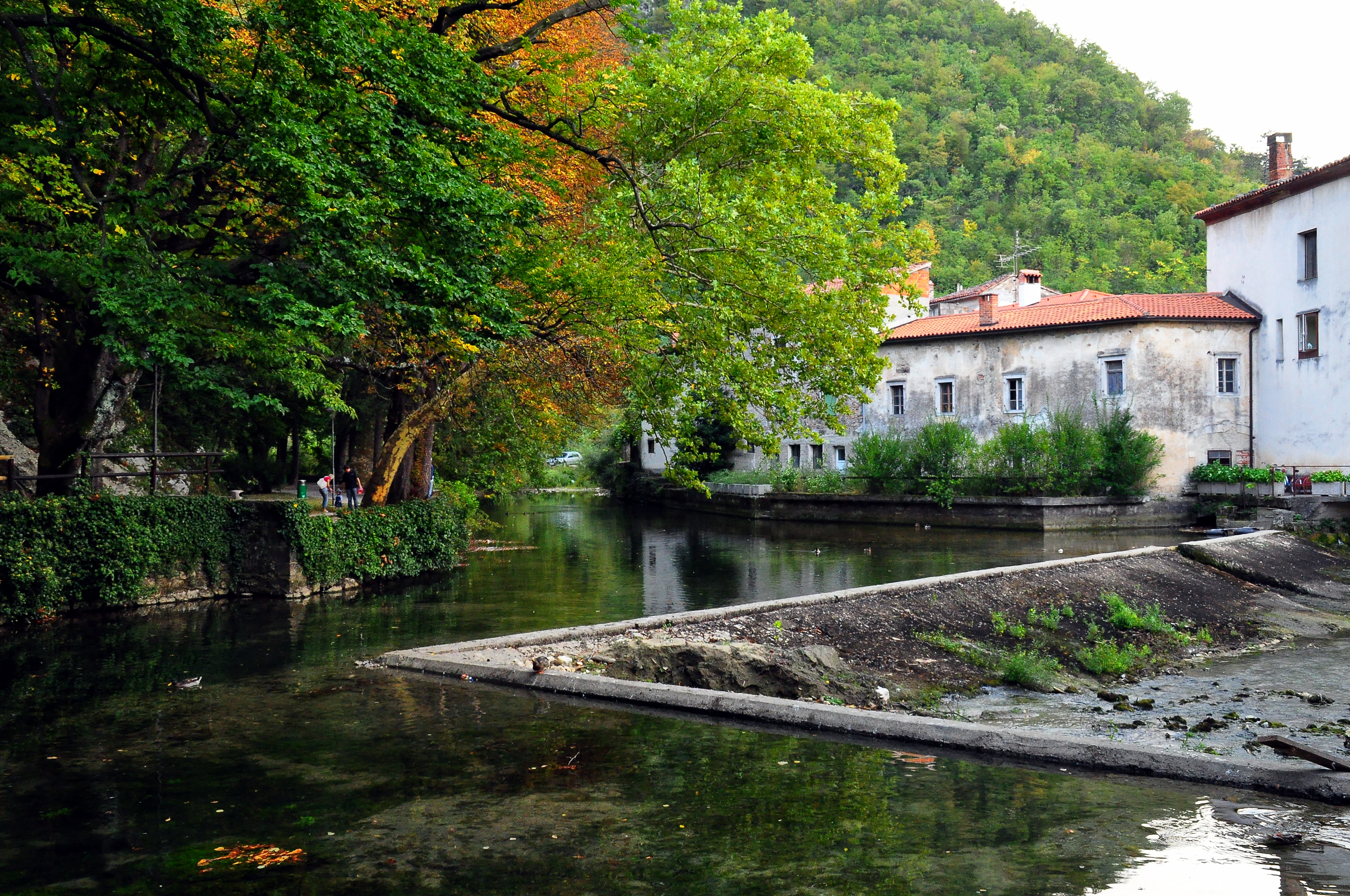 Podskala park at the karst spring of the Vipava river in Vipava, Goriška, Slovenia